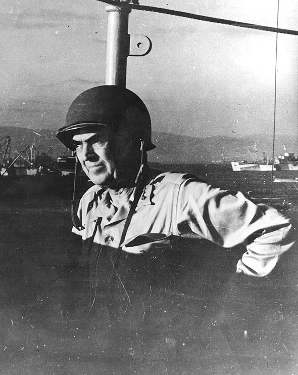 Thomas_C._Kinkaid; Photo #: Photo #: NH 84675 Vice Admiral Thomas C. Kinkaid, USN, Commander Seventh Fleet watches landing operations in Lingayen Gulf, Leyte, from the bridge of his flagship, USS Wasatch (AGC-9), circa 9 January 1945. U.S. Naval Historical Center Photograph. Removed caption read: Photo # NH 84675 VAdm. Thomas C. Kinkaid in Lingayen Gulf, Jan. 1945